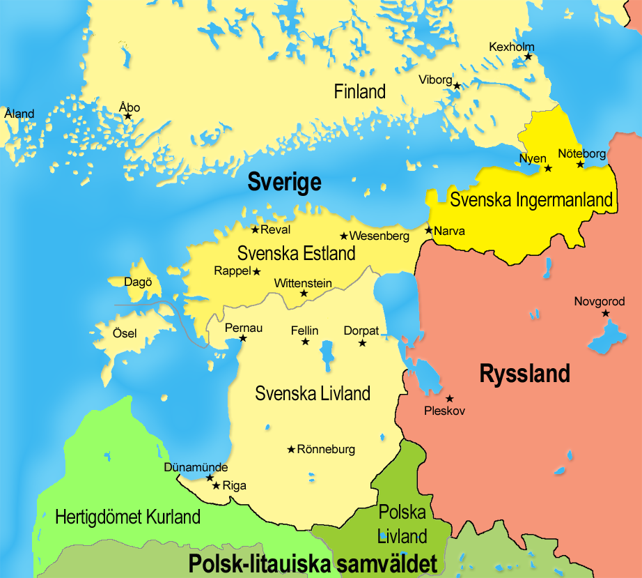 The Baltic provinces of the Swedish Empire in the 17th century, with Swedish country names and place names that were used at the time. An English version also exists: Sw BalticProv en.png